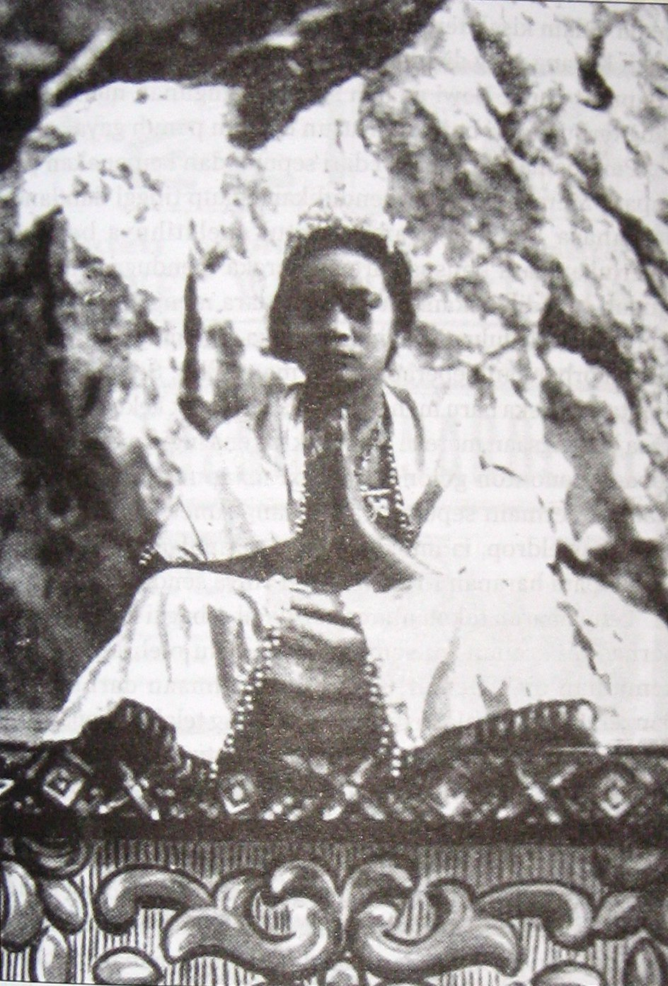 Film still from Loetoeng Kasaroeng. Actress may be Martoana.